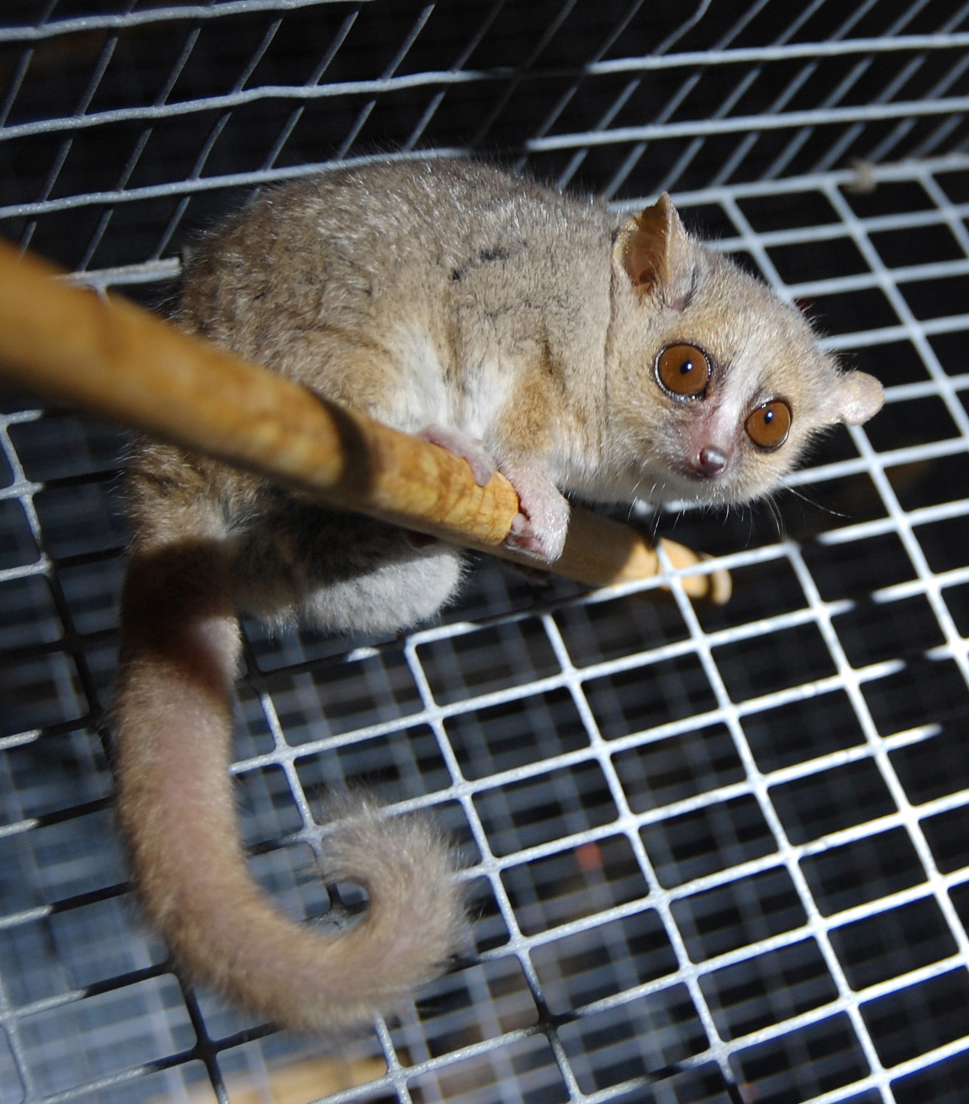 Gray Mouse Lemur (Microcebus murinus)